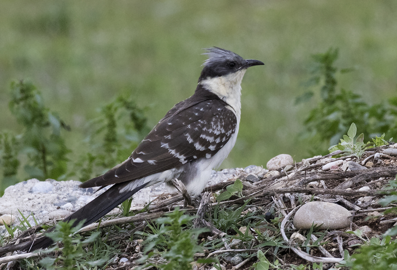 A Great Spotted Cuckoo (Clamator glandarius) in a late evening. Balcalı, Sarıçam - Adana, Turkey.